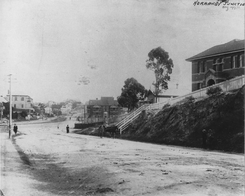 View of Red Hill, Brisbane, Queensland from College Rd. The Queensland Stock Institute building can be seen in upper right foreground which was completed in 1899.